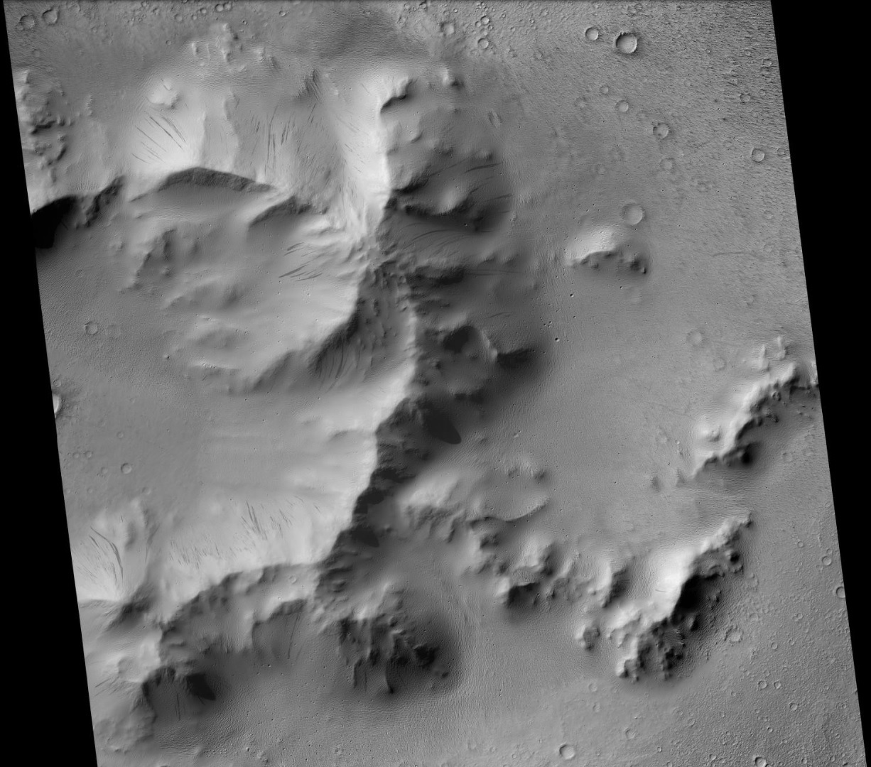 Central part of Burton Crater, as seen by ctx